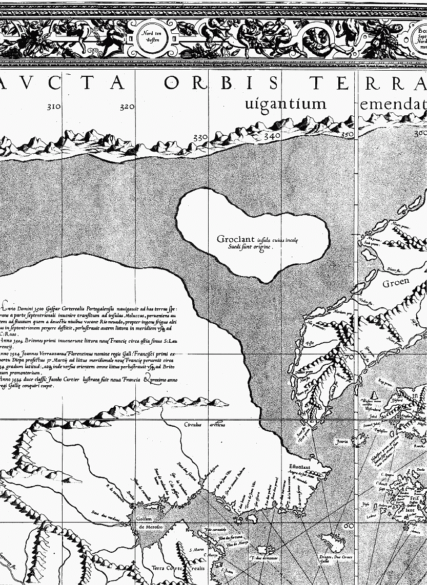 Mercator 1569 world map sheet 03